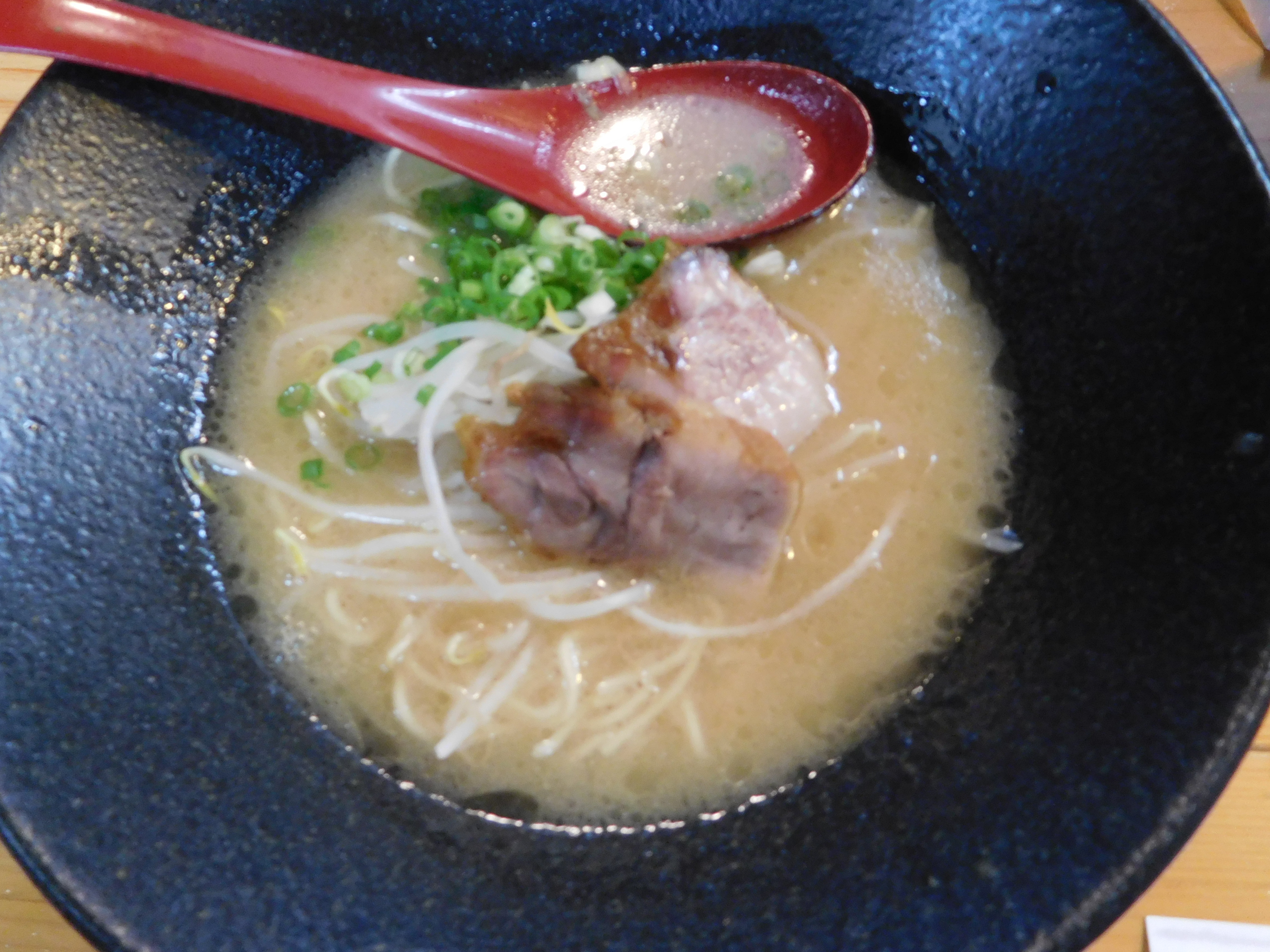 This is Kumano beef Ramen cooked by RAKU, a ramen shop in Shingu, Wakayama, Japan.